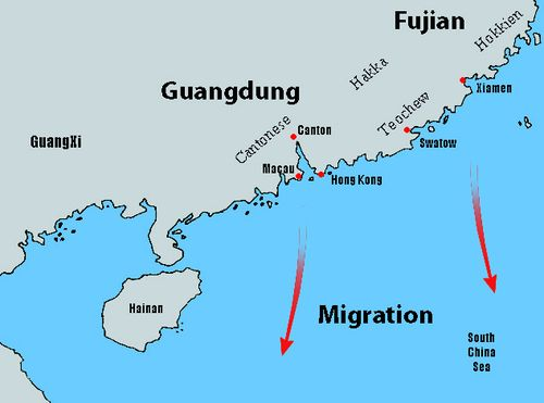 South Chinese Migration map